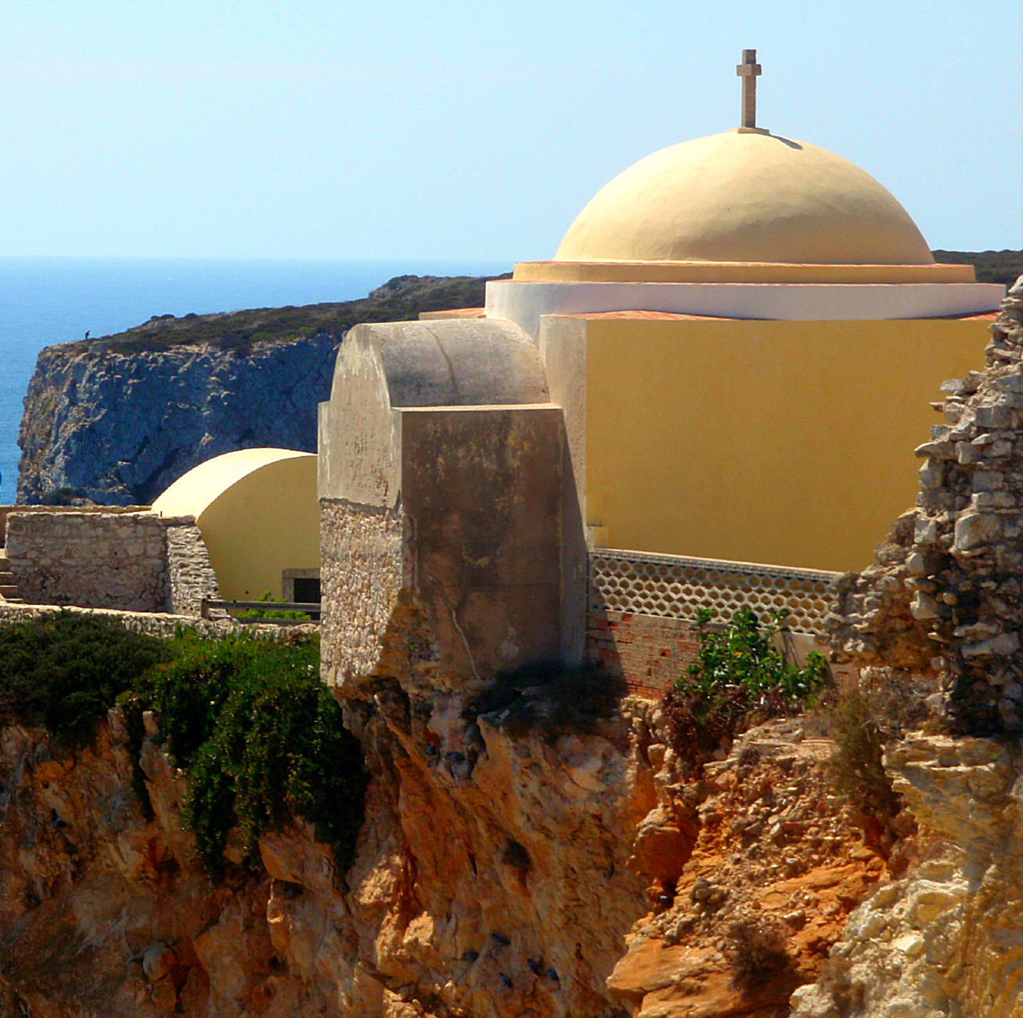 View of the chapel at the Fort of Belixe, threatened by coastal erosion